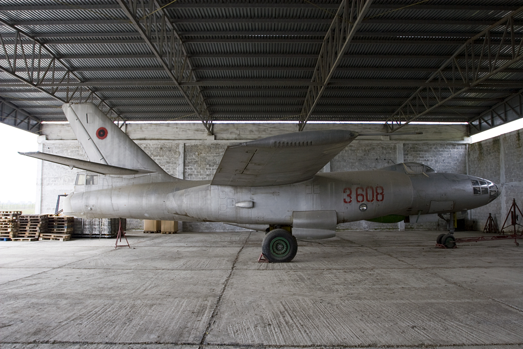 H5 bomber (Chinese version of the IL-28 'Beagle') at Tirana Airport.